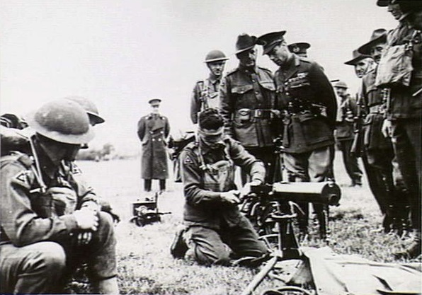 King George VI inspects the skills of Australian Vickers machine gunner from the 2/1st Machine Gun Battalion, which was based in the United Kingdom in 1940